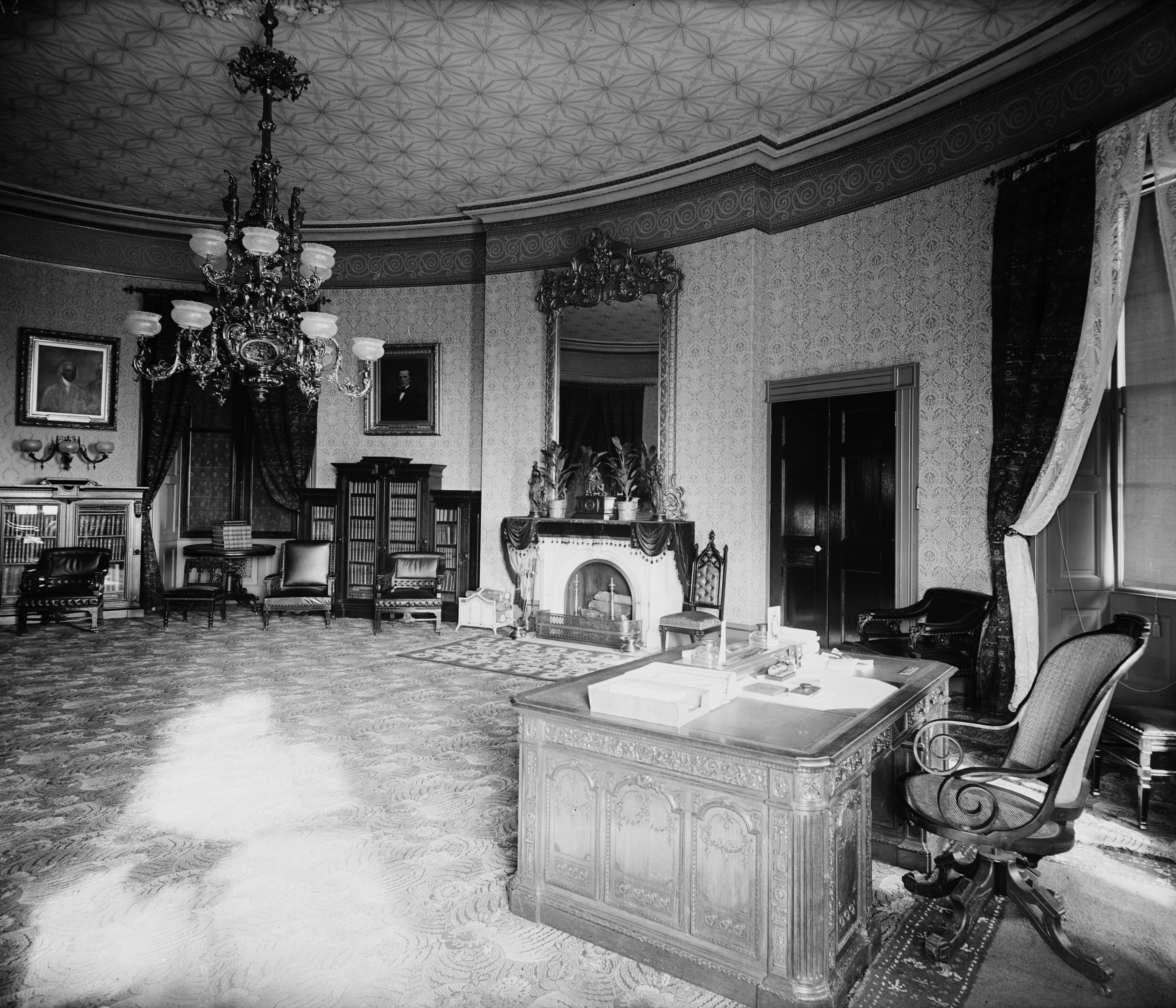 The White House Yellow Oval Room in 1886, as Grover Cleveland's library and study, looking northeast. The desk is the Resolute desk.